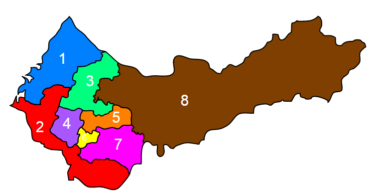 Map of Taichung legislative district